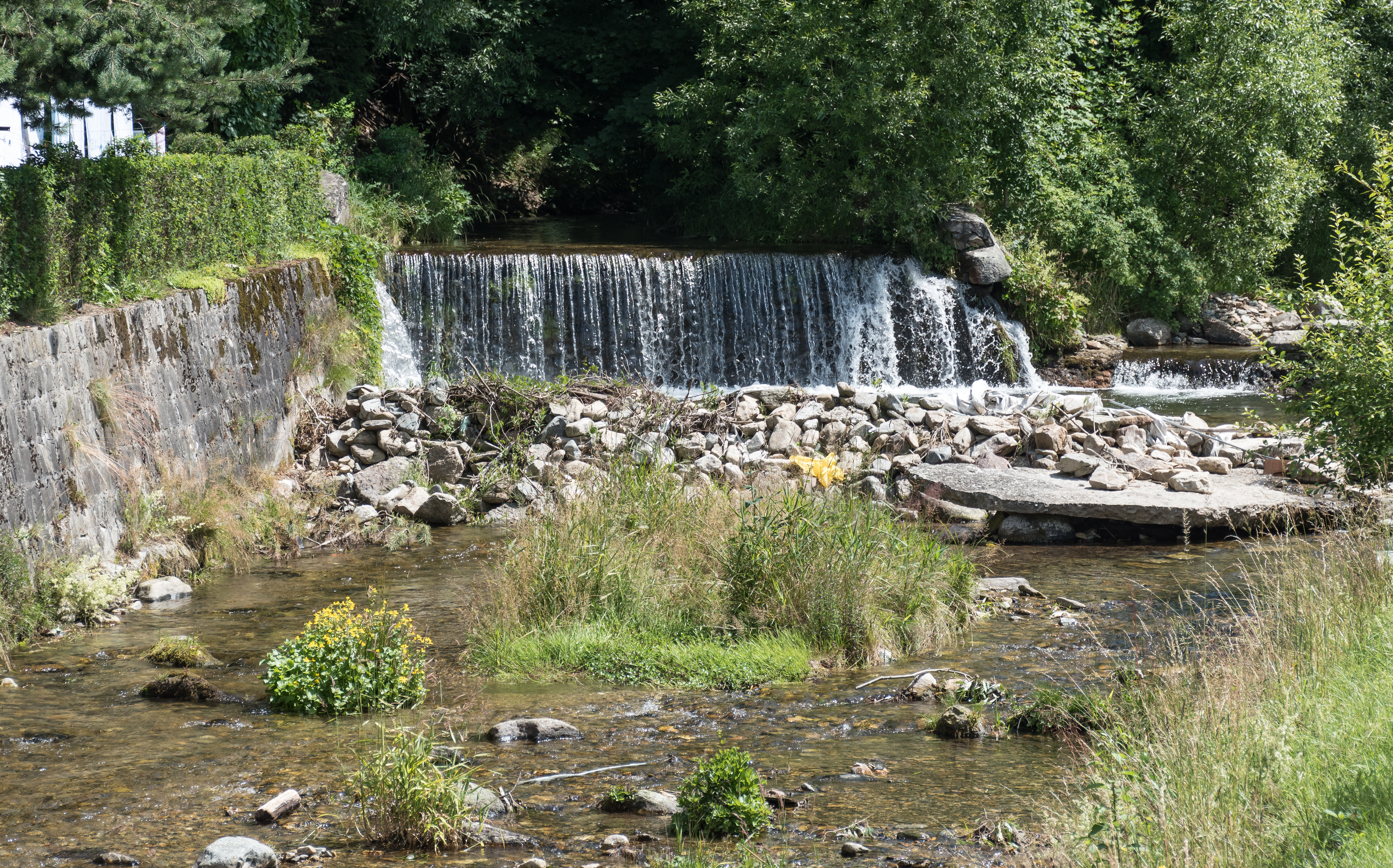 Nowy Gierałtów, waterfall on Biała Lądecka